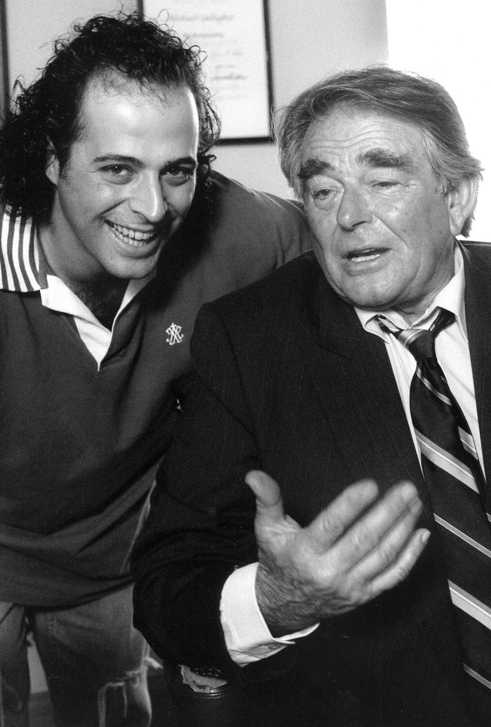 Eduardo Montes-Bradley and Stuart Whitman on the set of the film "Smoothtalker”. Eduardo Montes-Bradley y Stuart Whitman. Los Angeles, Apr. 29, 1990